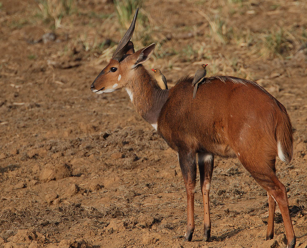 A male Bushbuck with his attendant Red-billed Oxpeckers. The name Bushbuck actually incorporates two species which are more closely related to some of the other Tragelaphines than to each other. The animal above is a male Imbabala (Tragelaphus sylvaticus) which is sexually dimorphic and has close affinity to Bongos whilst the smaller Bushbuck species has little in the way of difference between the sexes and has closer affinity to Nyalas (it is sometimes known by its Wolof name of Kéwel (Tragelaphus scriptus)). These are plucky wee antelope which when cornered don't hesitate to stab at their aggressors with their short spiral horns.